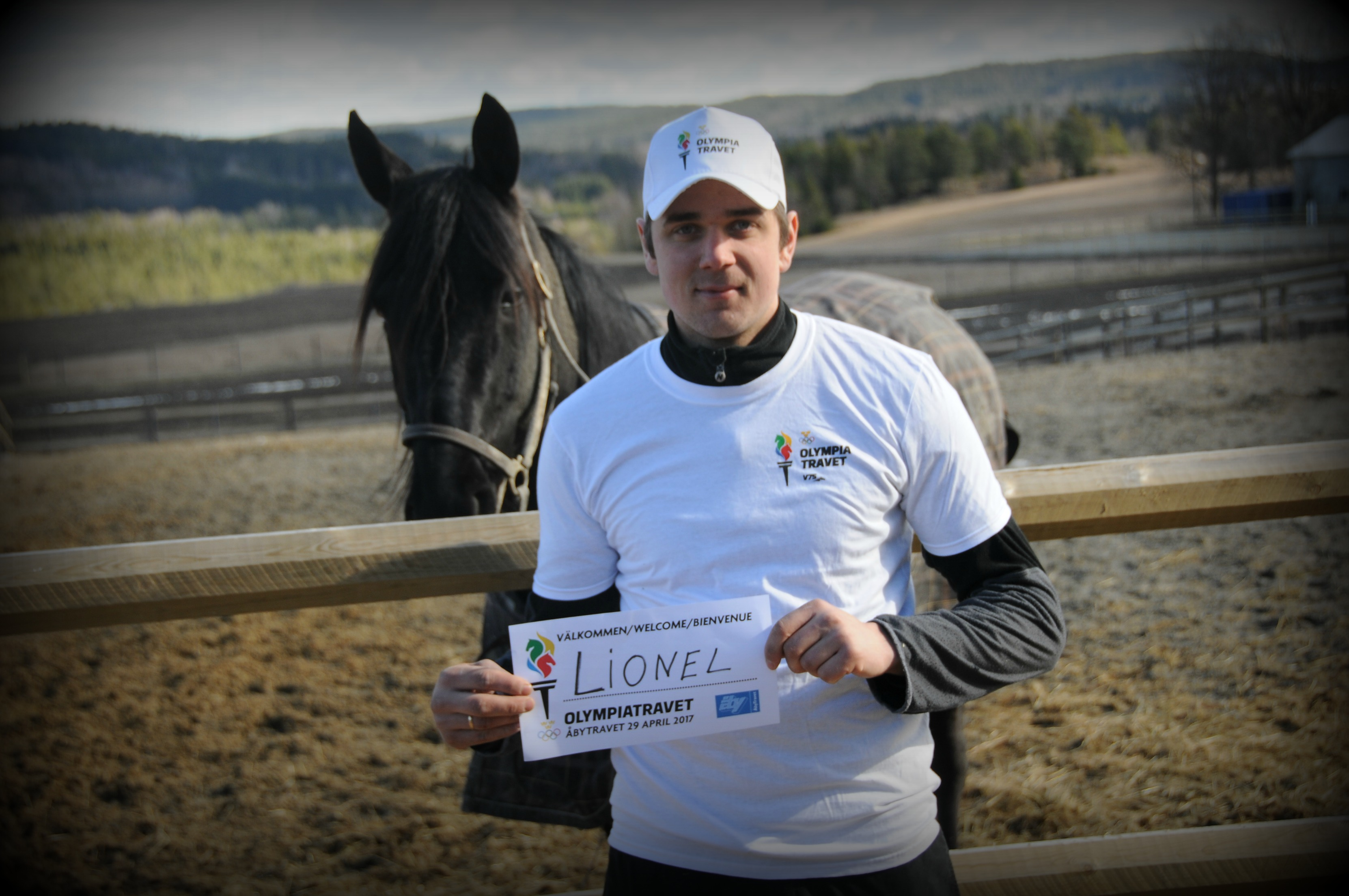 Göran Antonsen 2017 (Lionel N.O.'s driver).